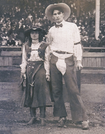 Yakima Canutt and Kitty Diamon in a rodeo show